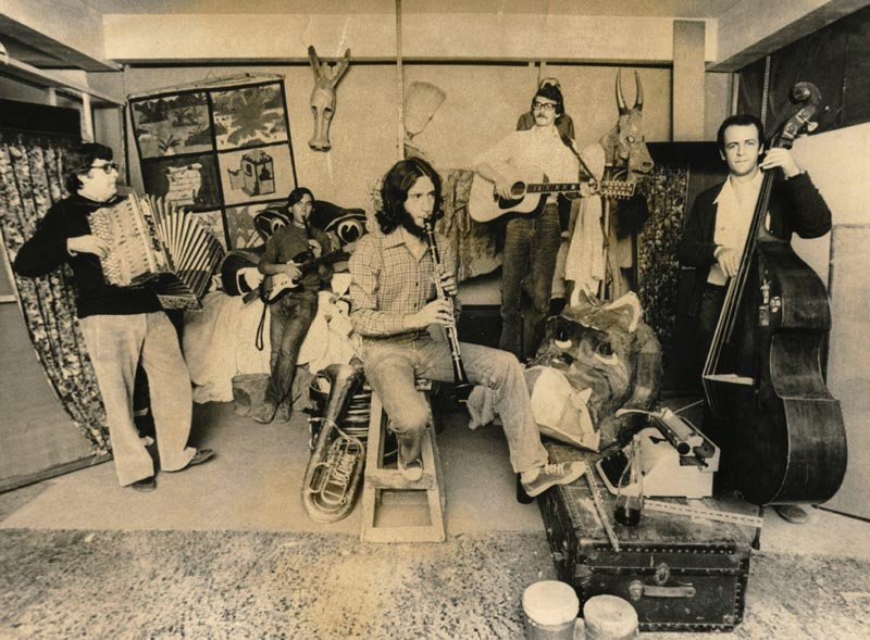 Oskorri, Basque folk music group, in 1977: Natxo de Felipe, Bixente Martinez, Karlos Gimenez, Anton Latxa and Santi Gimenez.